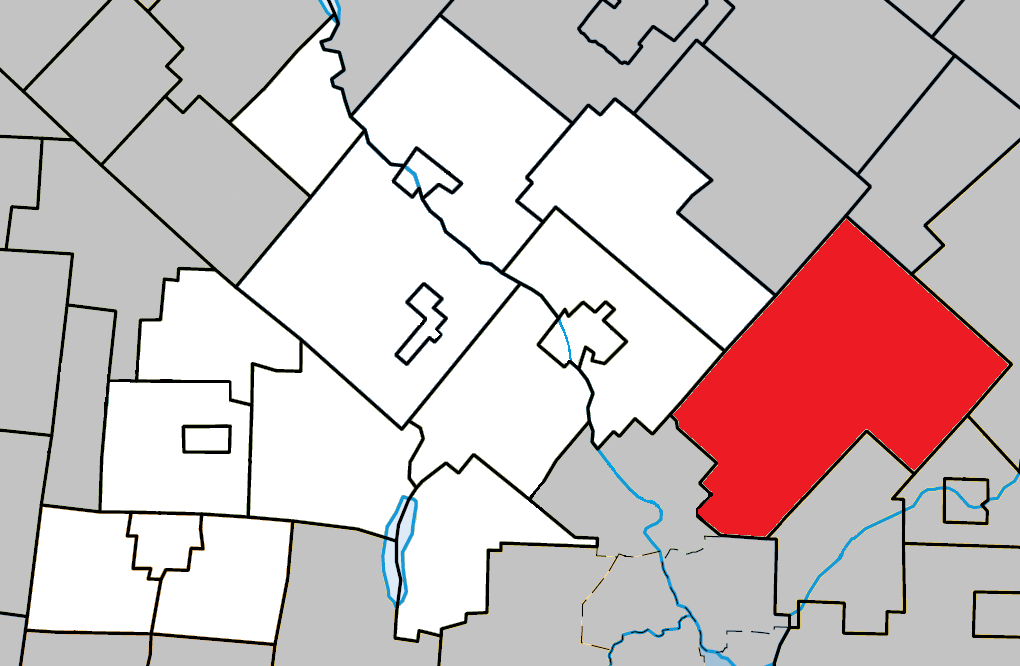 Location of Stoke, Quebec within Le Val-Saint-François Regional County Municipality.